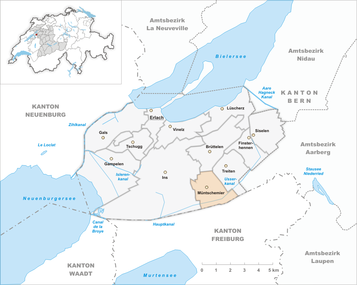 Municipality Müntschemier